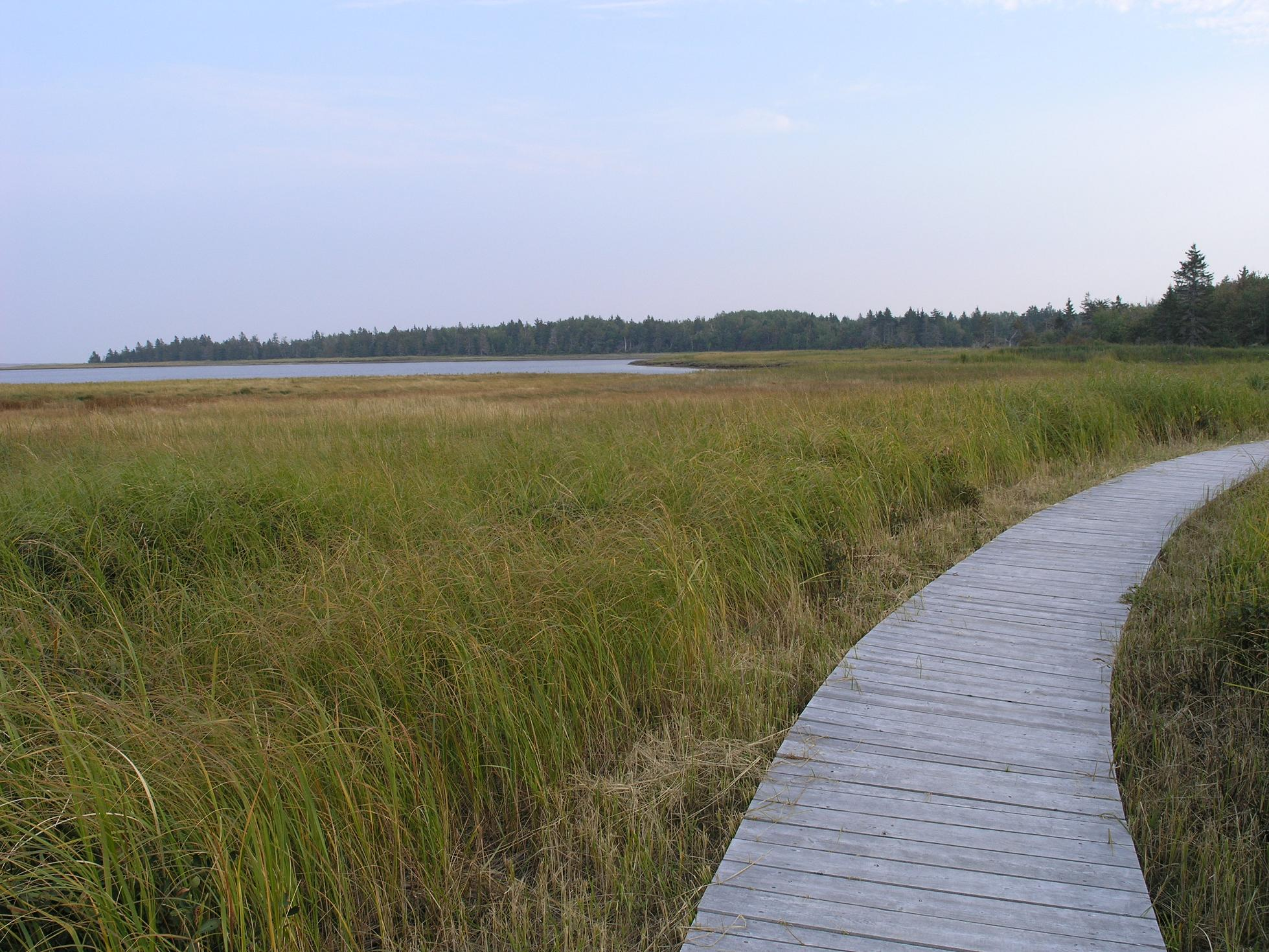 Saltmarsh at Kouchibouguac National Park, New Brunswick, Canada.